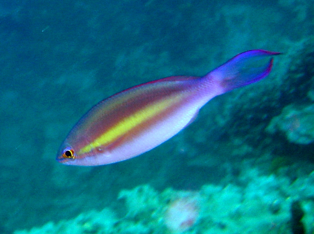 Double whiptail (Pentapodus emeryii) Image ID: reef0940, NOAA's Coral Kingdom Collection Location: Guam, Mariana Islands